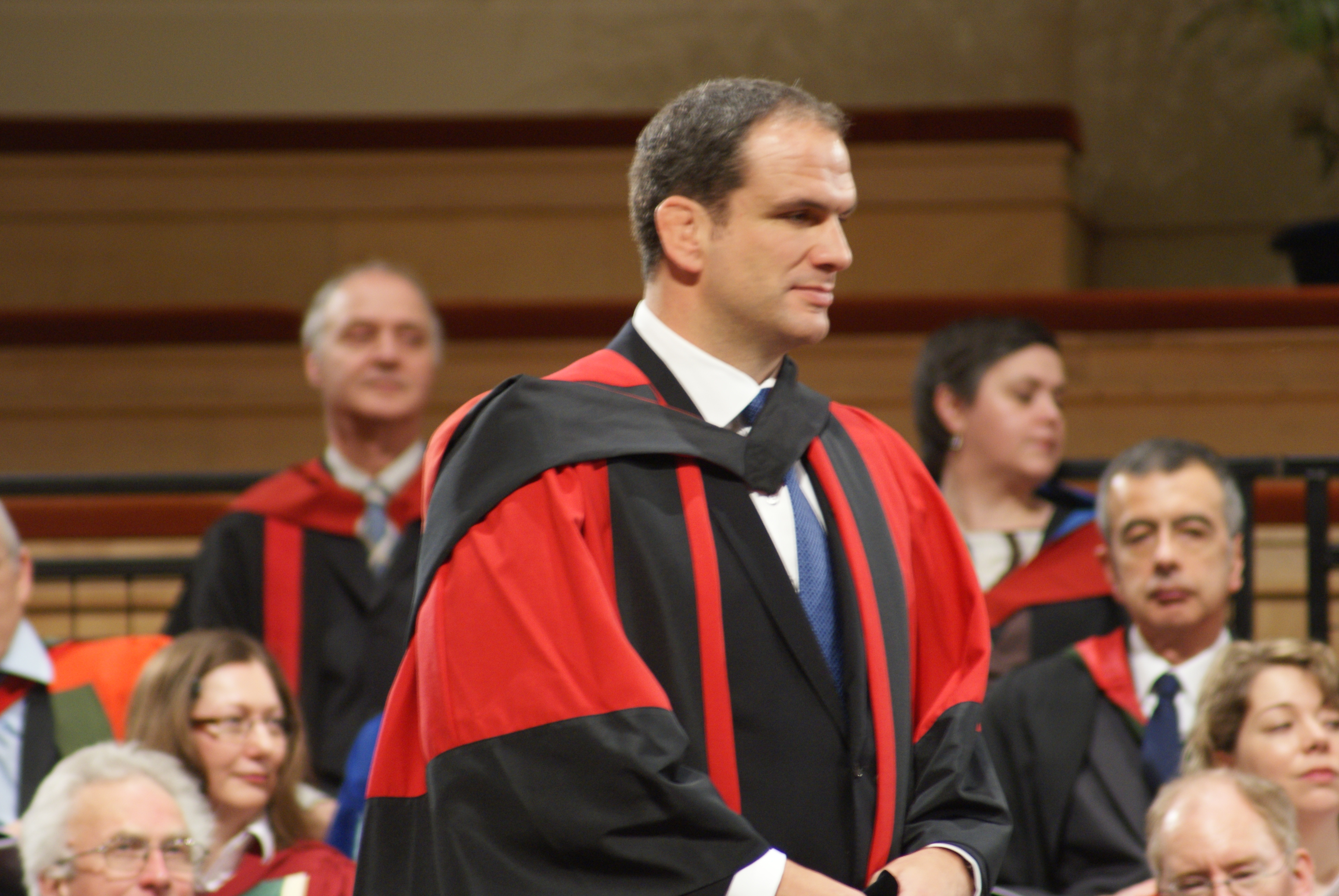 Martin Johnson receives honourary doctorate from Leicester University.